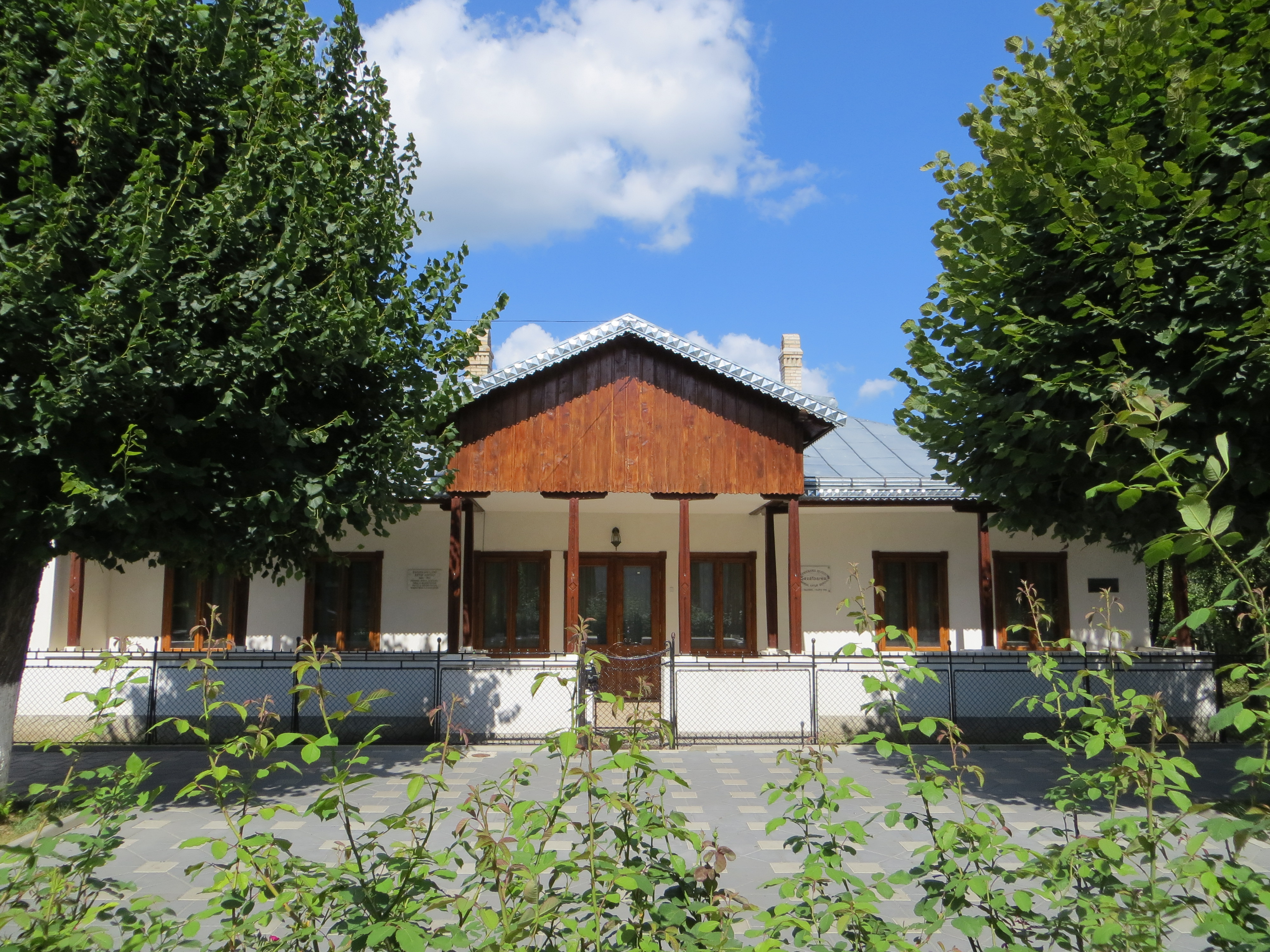 Gane-Gorovei House, Fălticeni, Suceava County, Romania.